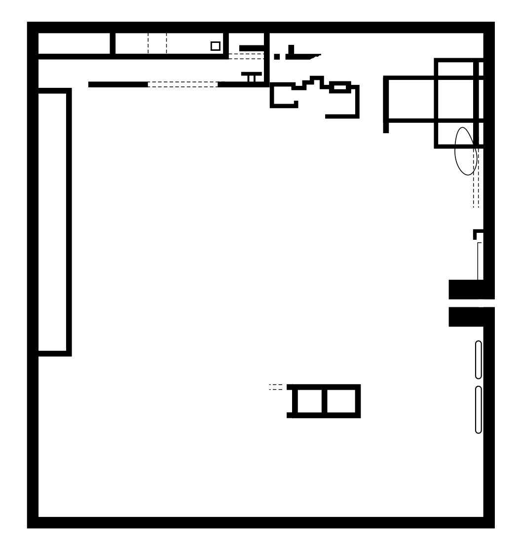 Plan of the Palace of Omurtag. Copy of an image in the book "Formation of the Old Bulgarian Culture VI-XI Century", Stancho Vaklinov, Publishing House "Science and Art", Sofia, 1977.[1]